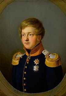 Prince Maximilian von Baden (Count of Hochberg) - 1817